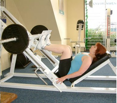 Cropped from Image:LegPressMachineExercise.JPG and flipped.